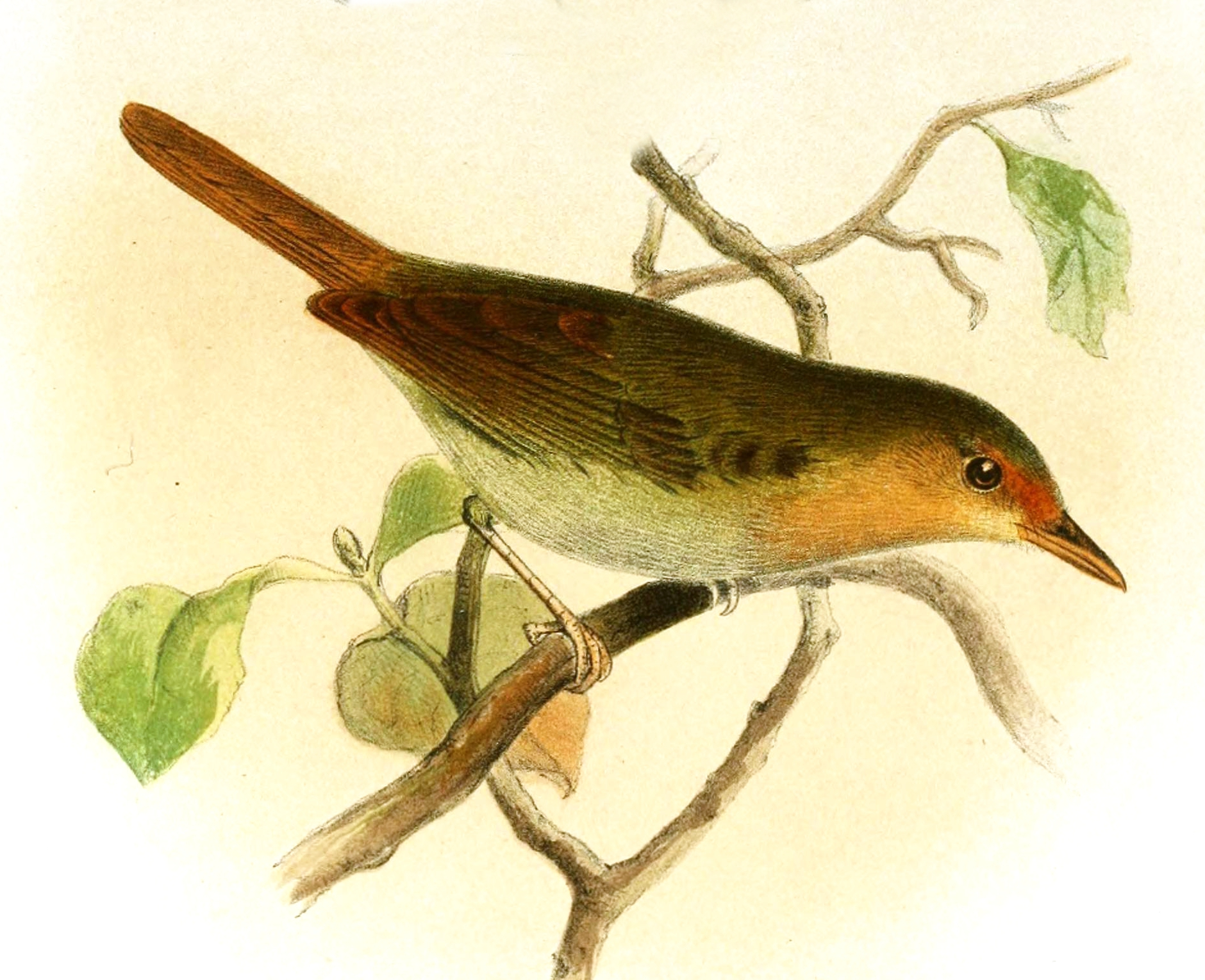 Red-fronted Greenlet, adult